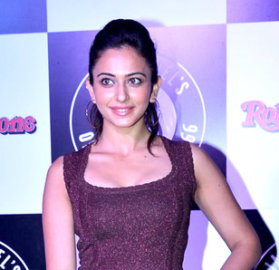 Rakul Preet at Jack Daniels Rock Awards 2014